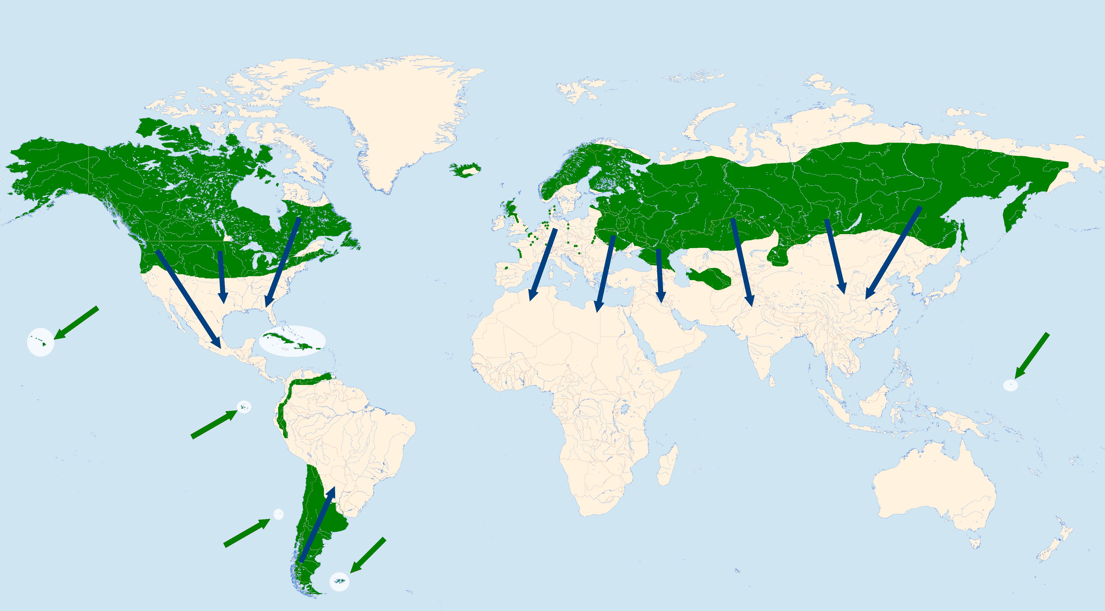 Asio flammeus - distribution map